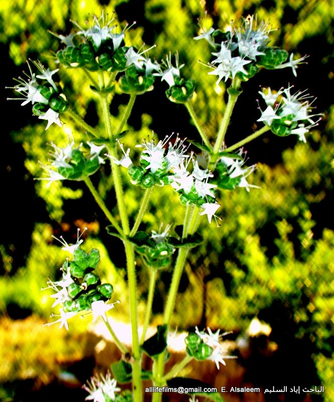 نبات برّي سوري يؤكل